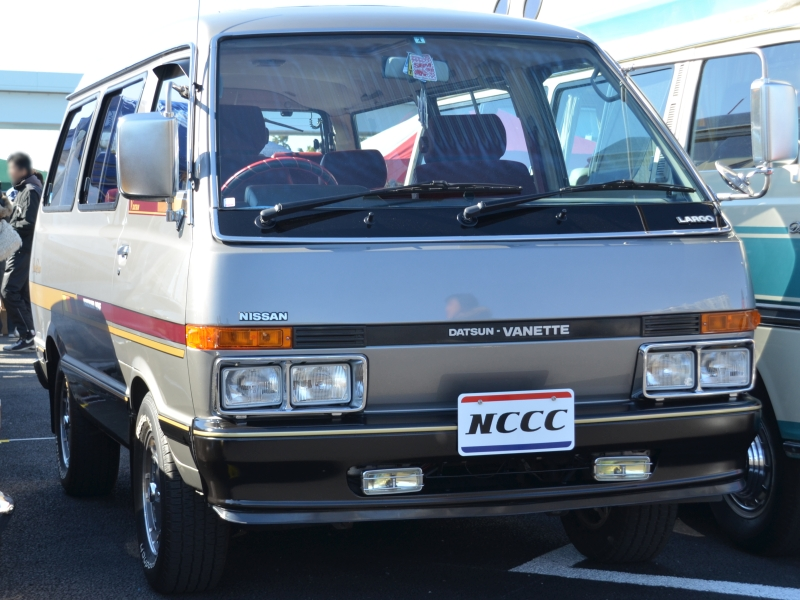 Nissan Datsun-Vanette Largo Grand Saloon